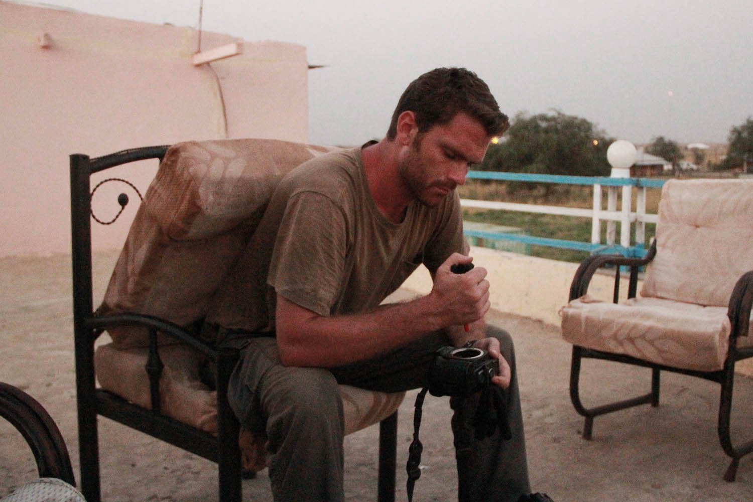 Pete Muller in Melut, northern South Sudan